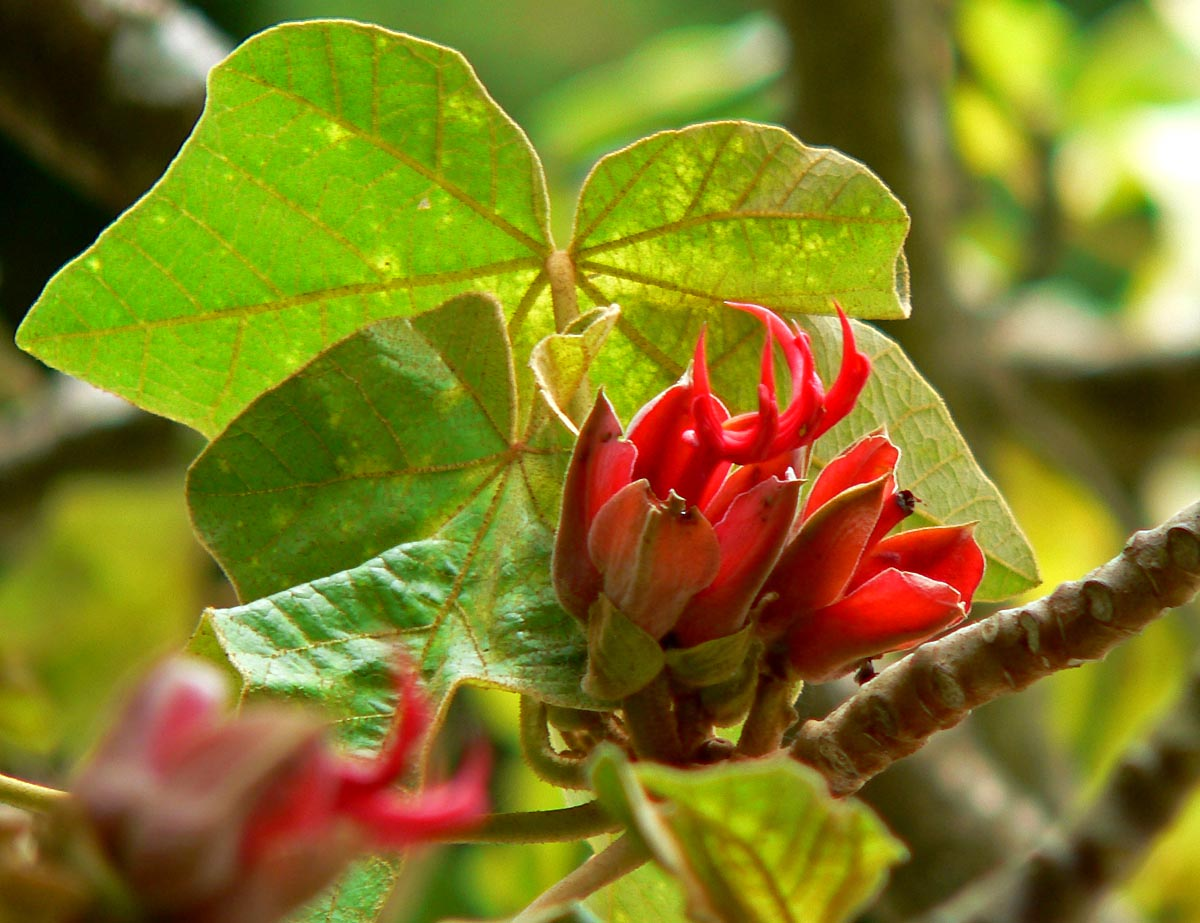 Photo of Chiranthodendron pentadactylon (Mexican hand tree) at the San Francisco Botanical Garden